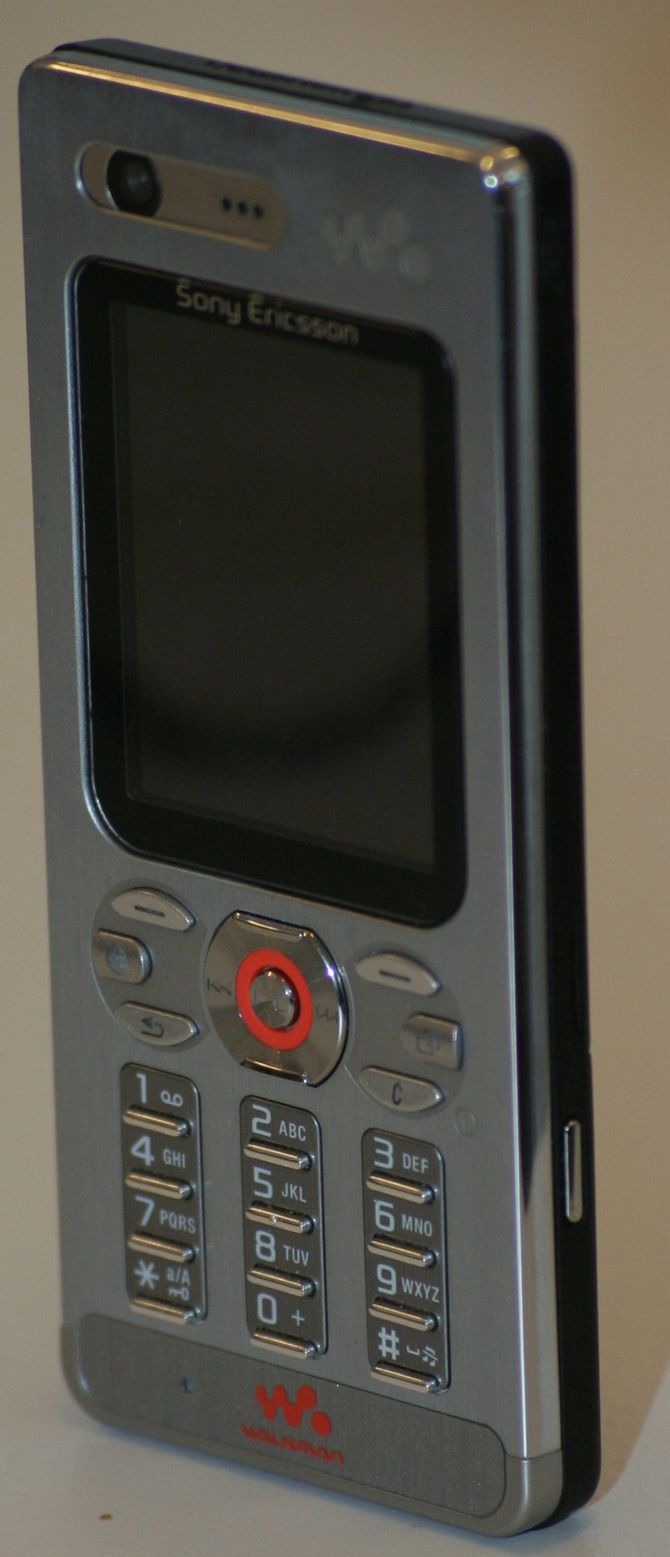 Sony Ericsson W880i, silver edition. Photographed by me.